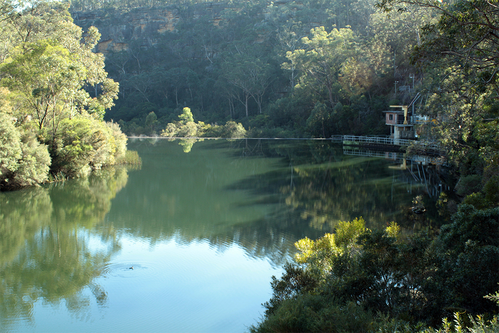 Weir at Broughton's Pass, Cataract River, near Appin, New South Wales, Australia. Part of Sydney Water Supply.